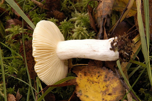 Russula claroflava from Commanster, Belgium. The determination of the species shown in this picture has been verified.